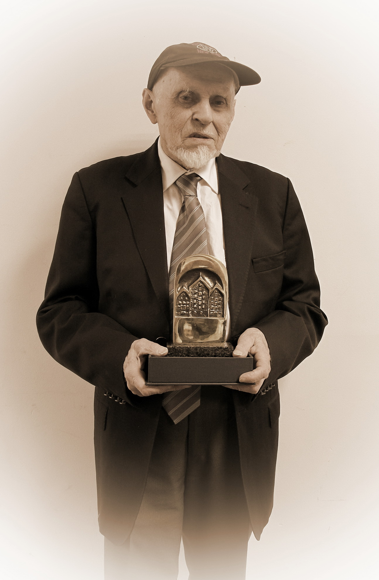 Jan Ptaszyn Wróblewski with honorary statuette (2017) by Jarosław Pijarowski